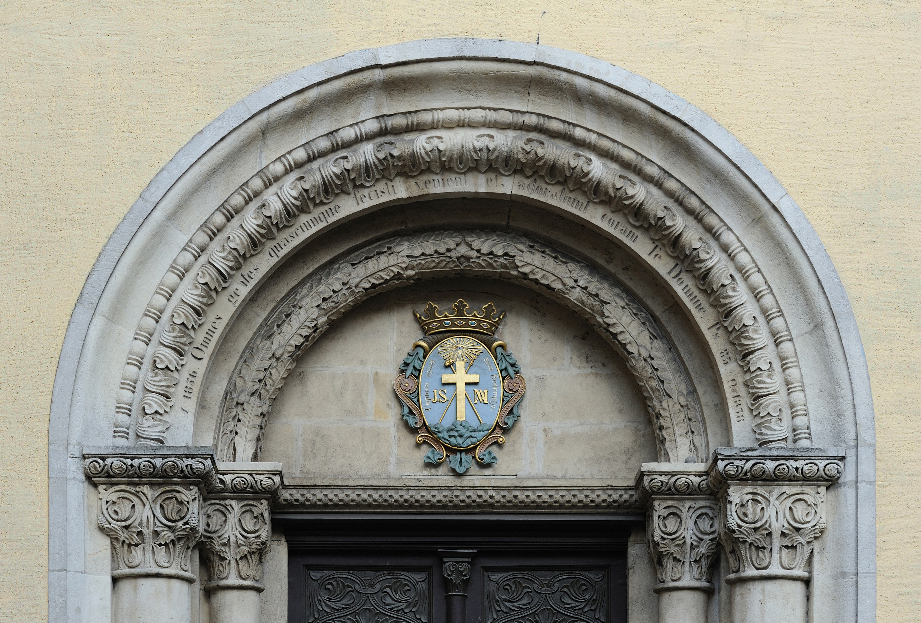 Luxembourg City, Saint-Alphone church: pediment of main portal.